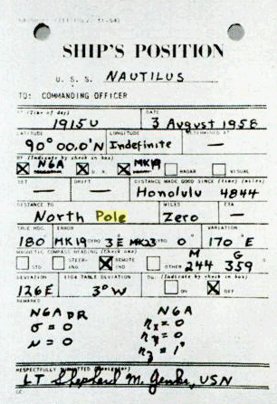 Nautilus, 90N, 19:15, 3 August 1958, zero to North Pole